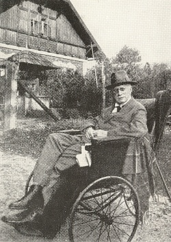 Czech poet Antonín Sova in front of gamekeeper's lodge in Štít near Klamoš